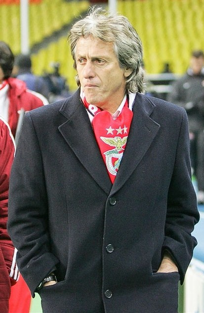 António Carraça and Jorge Jesus